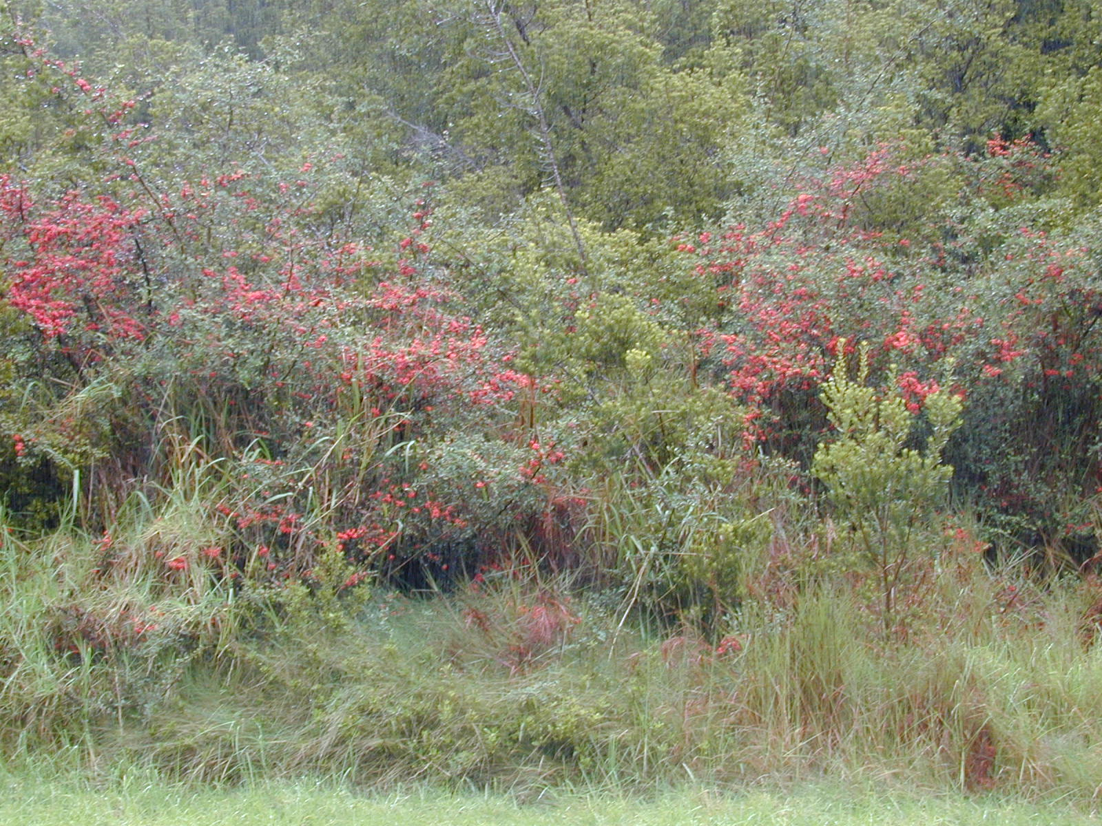 Pyracantha crenatoserrata (habit). Location: Hawaii, Havo